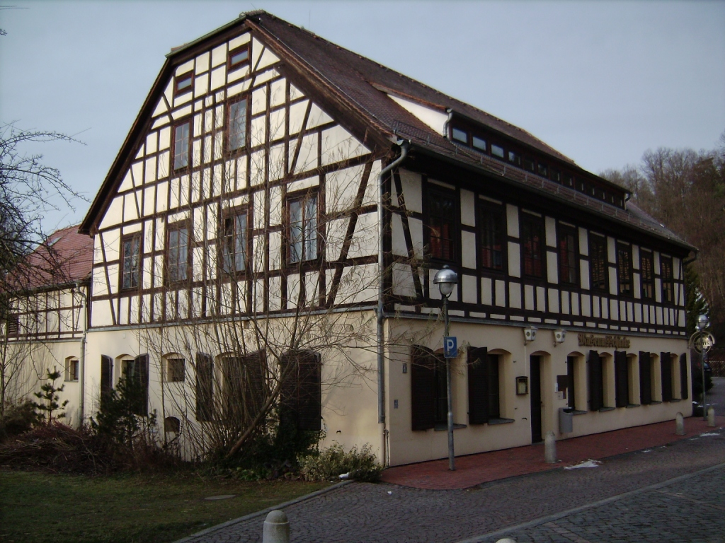 Museum in Schmölln, Thuringia